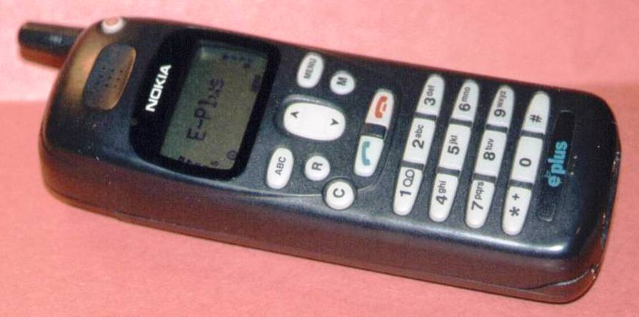 Nokia Energy (variant of Nokia 1610), special version for e-plus (a.k.a. E-Netz:de)